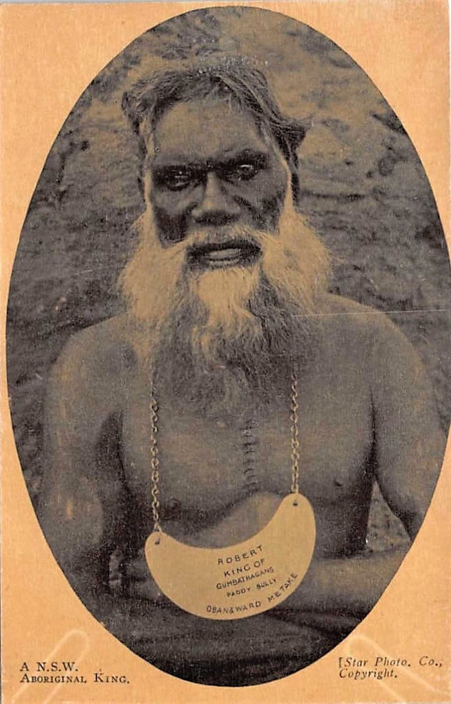 Robert, King of Gumbathagang tribe, New South Wales - circa 1900